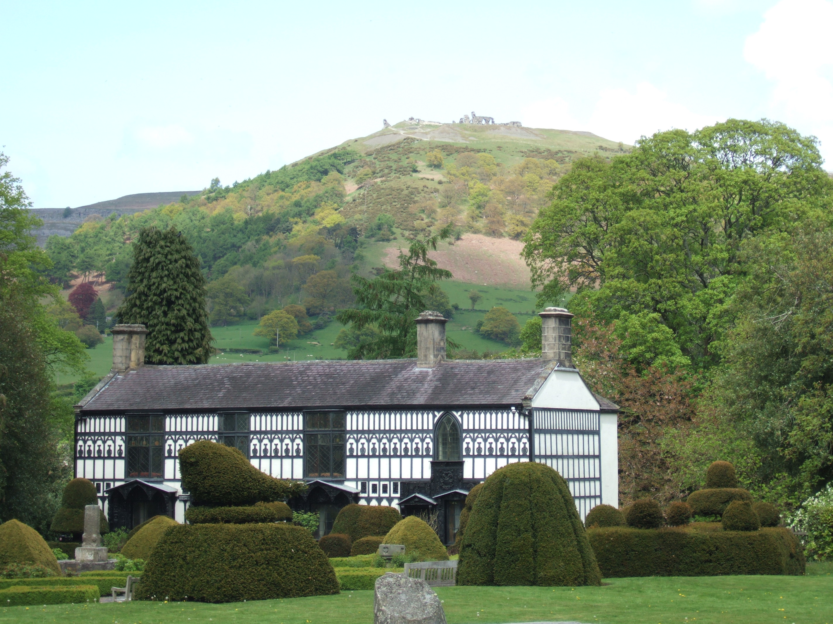 Plas Newydd, Dinas Bran in the background